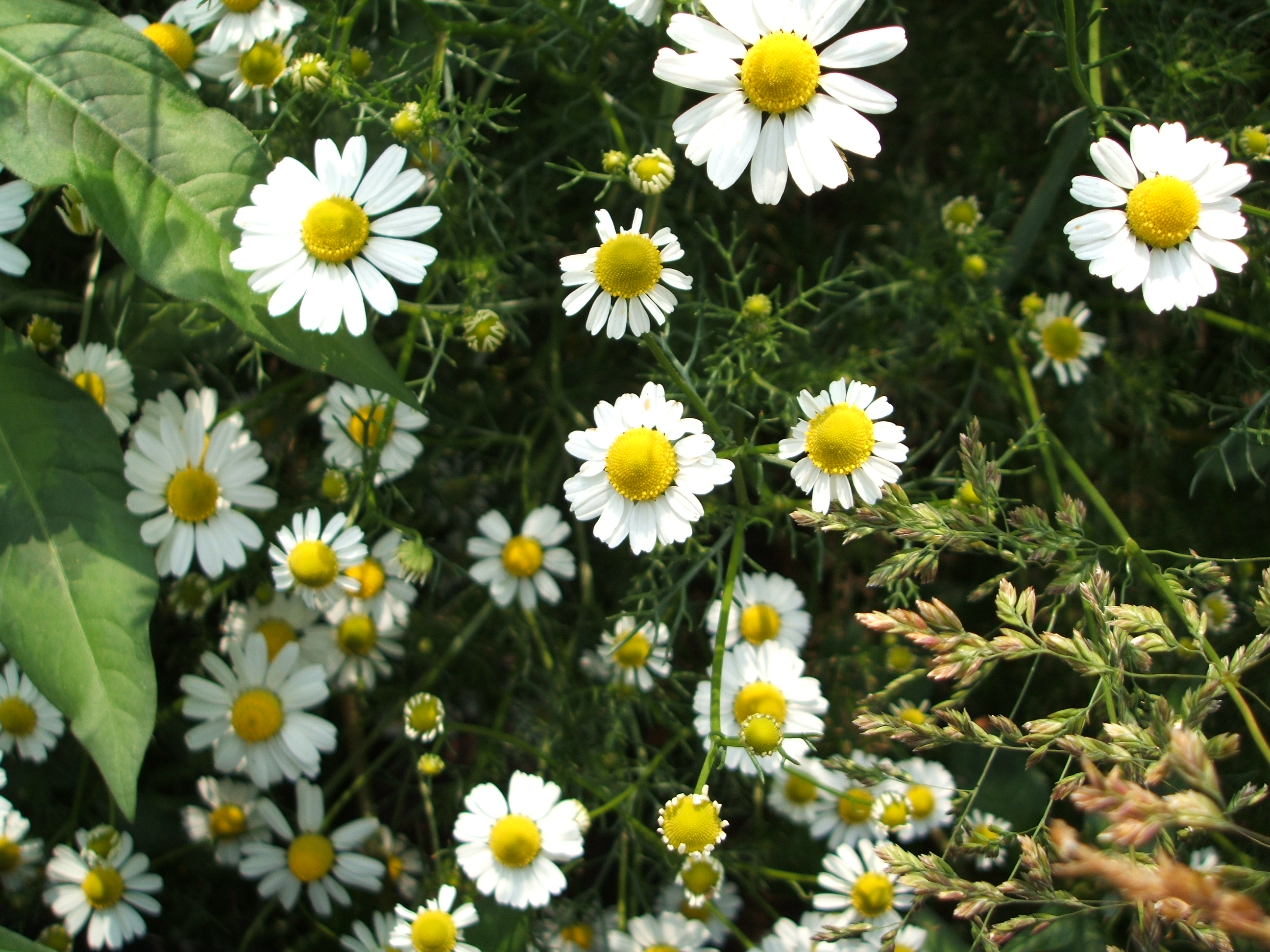 German chamomile, Matricaria chamomilla (syn: Matricaria recutita).